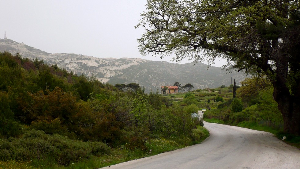 The above picture depicts Penteli fields.